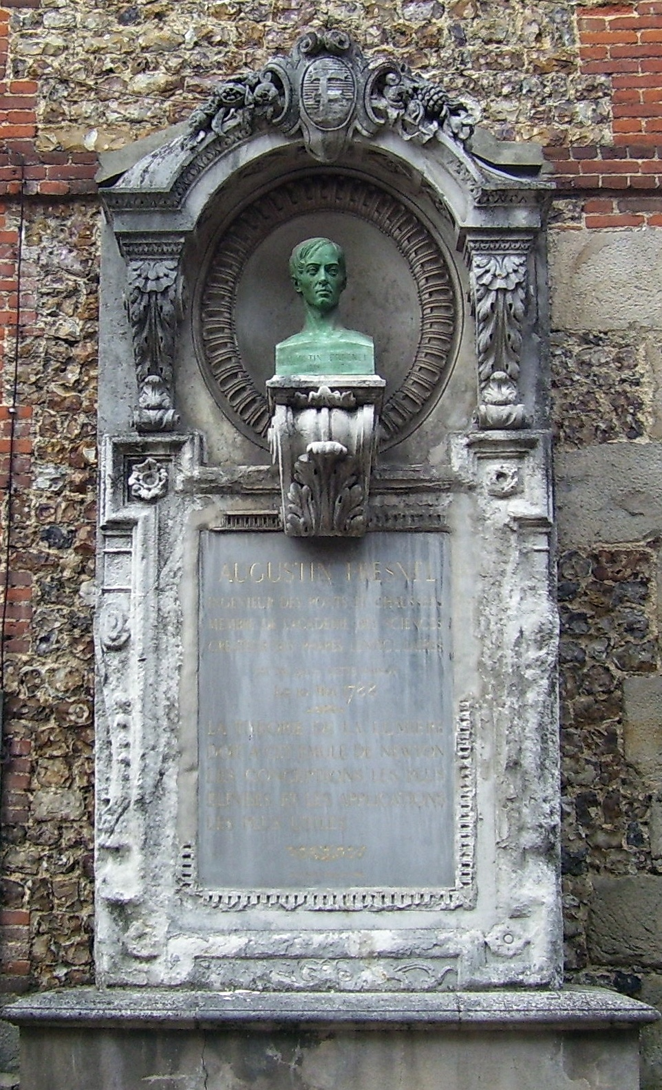 Bust of Augustin Fresnel (1788-1827) in Broglie, département Eure in France. He was a physicist and inventor of the Fresnel lens.